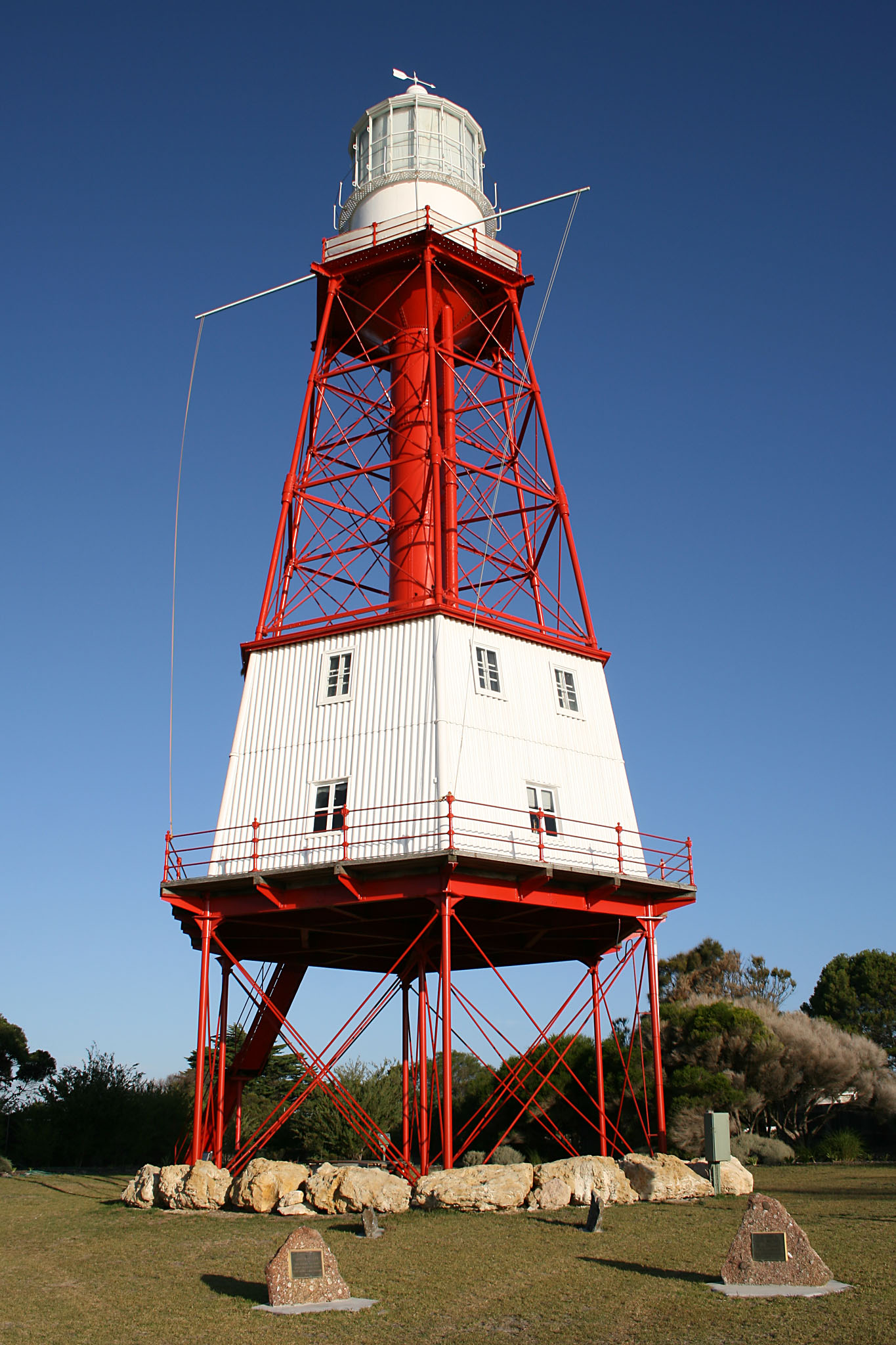 Cape Jaffa Lighthouse, Kensington SE, Australia